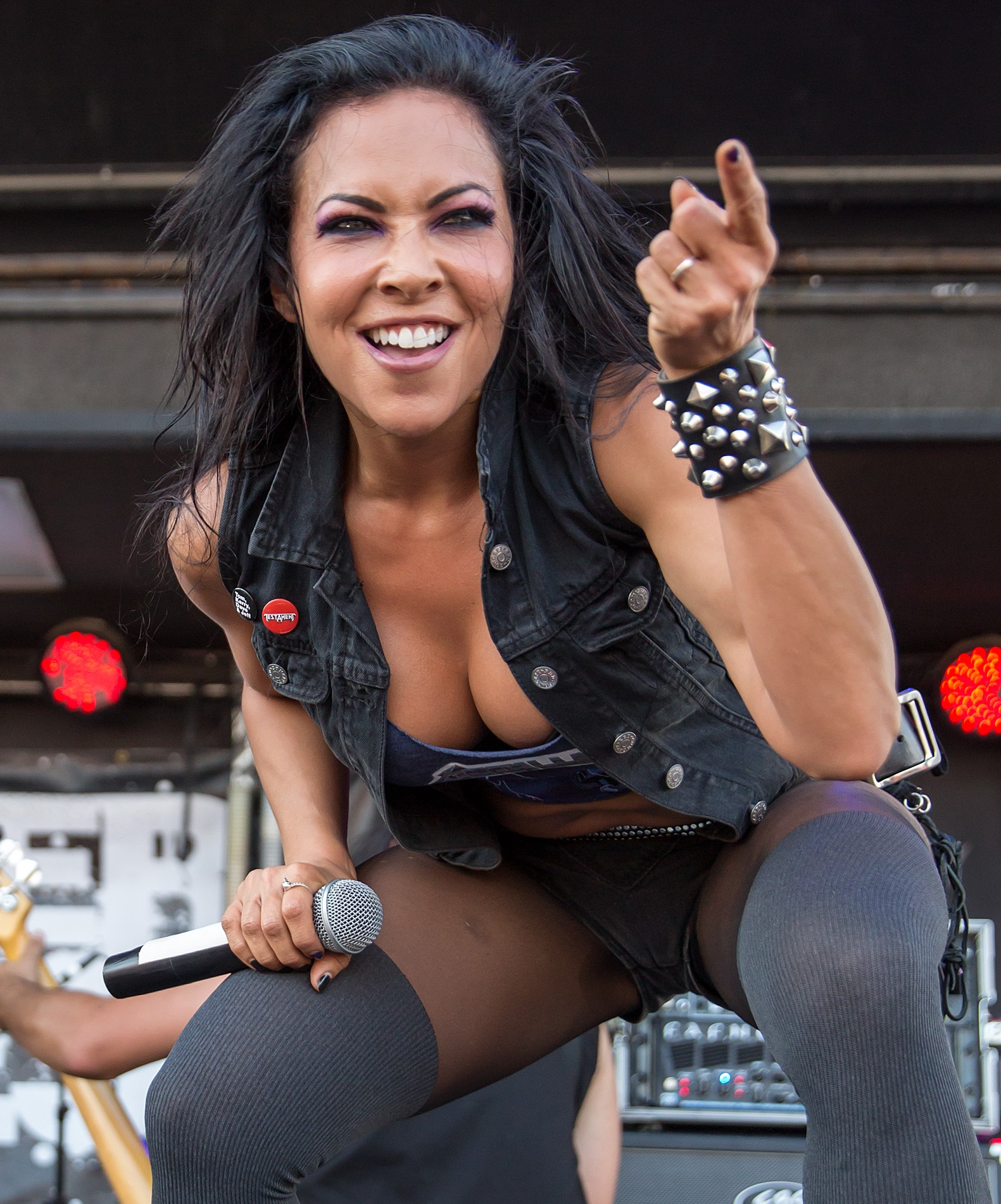 Carla Harvey performing with Butcher Babies at the River City Rockfest at the AT&T Center in San Antonio, Texas in 2014